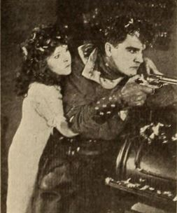 Still from the American western film A Sagebrush Hamlet (1919) with William Desmond, page 1090 of the August 2, 1919 Motion Picture News.